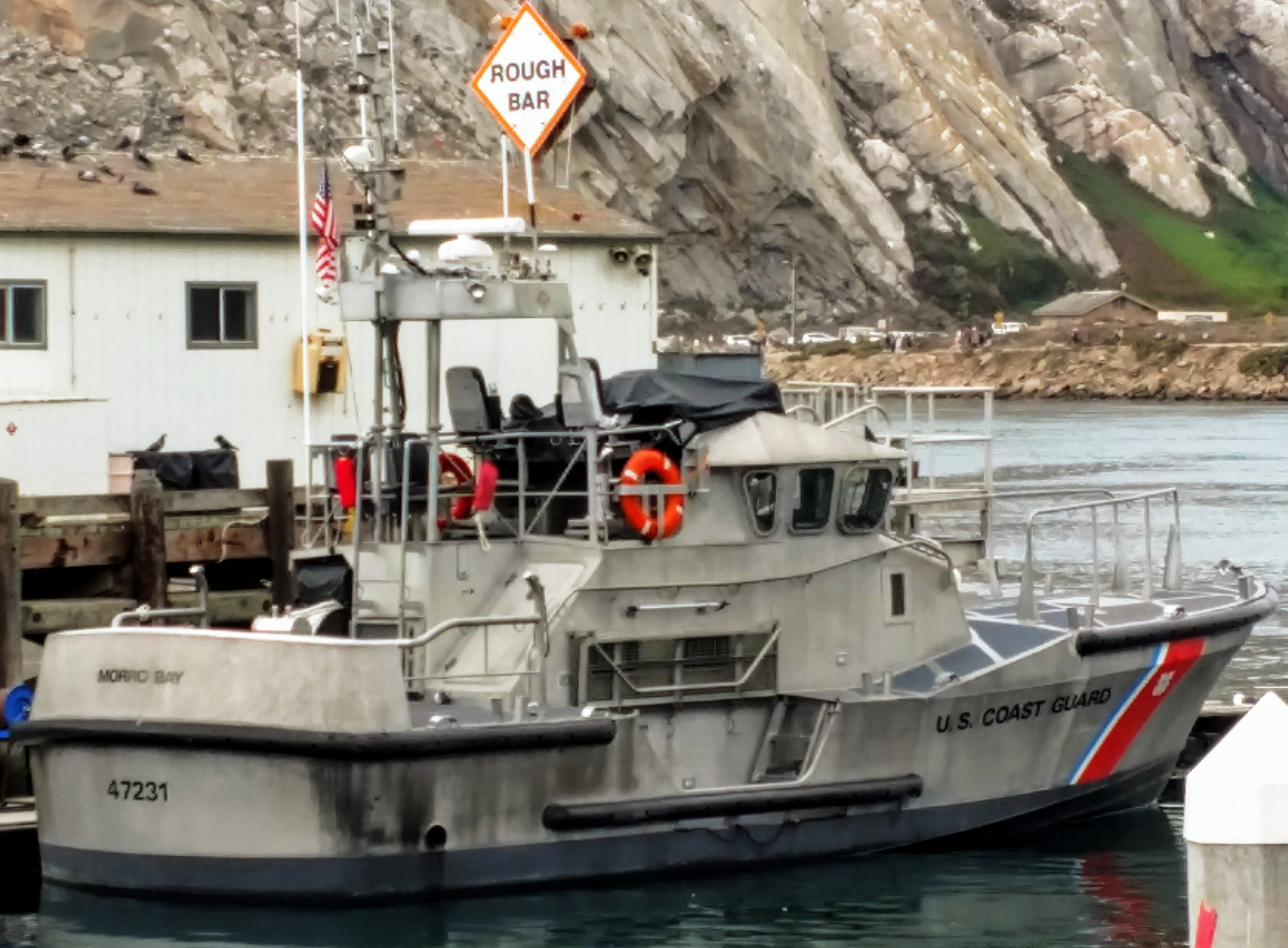 A U.S. Coast Guard w:47-foot Motor Lifeboat docked in Morro Bay, California